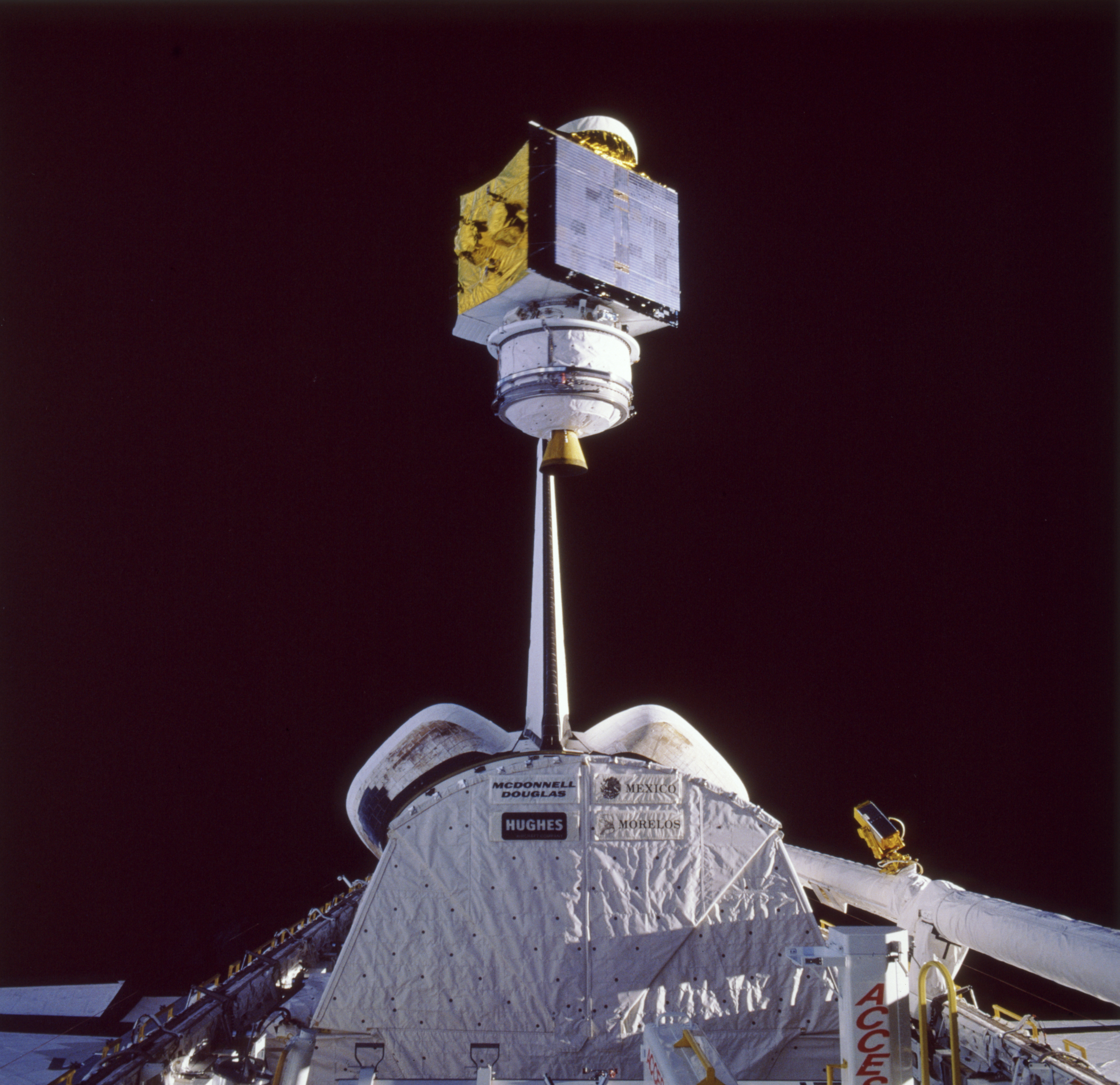 Deployment of the Satcom Ku-2 satellite on STS-61-B. The 4,144 pound RCA Satcom K-2 communications satellite is deployed from the cargo bay of the Shuttle Atlantis during the STS 61-B mission. The closed cradle of the Morelos communications satellite is seen just below it. In this photograph the SATCOM KU-2 satellite attached to a Payload Assist Module-D (PAM-D) is being released from the cargo bay of the Space Shuttle Orbiter Atlantis during STS-61B, the 23rd Shuttle Mission. The PAM-D is an upper stage system used to deploy payloads to a required orbit unattainable by the spacecraft. SATCOM KU-2 is an RCA communication satellite and was launched on November 26, 1985.